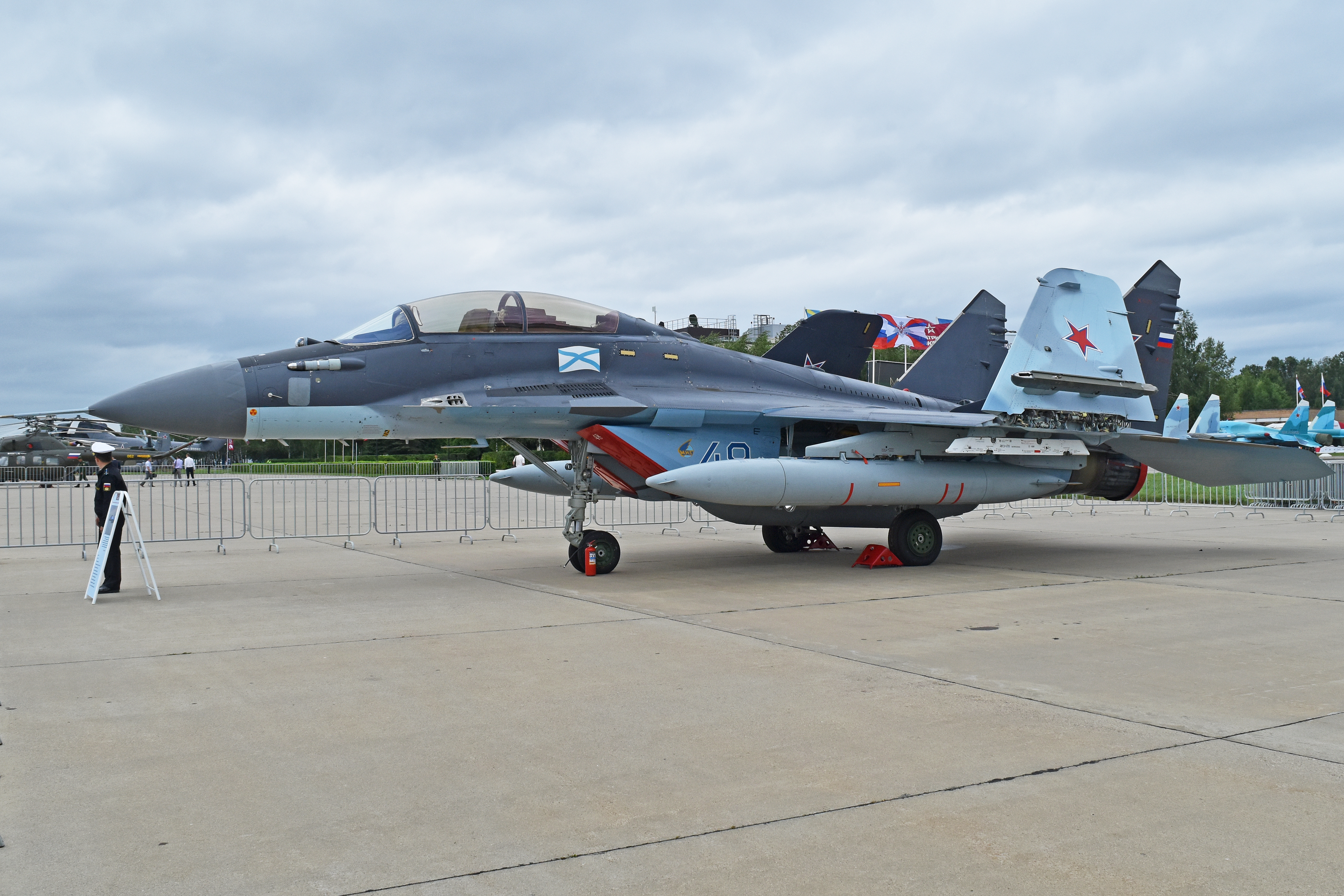 c/n unknown. Naval variant of the second generation MiG-29, with the NATO codename ‘Fulcrum-D’. Reported to be operated by the 100th Independent Shipborne Fighter Aviation Regiment (OKIAP) based at Severomorsk. On static display at the Aviation cluster of the ARMY 2017 event. Kubinka Airbase, Moscow Oblast, Russia. 24th August 2017